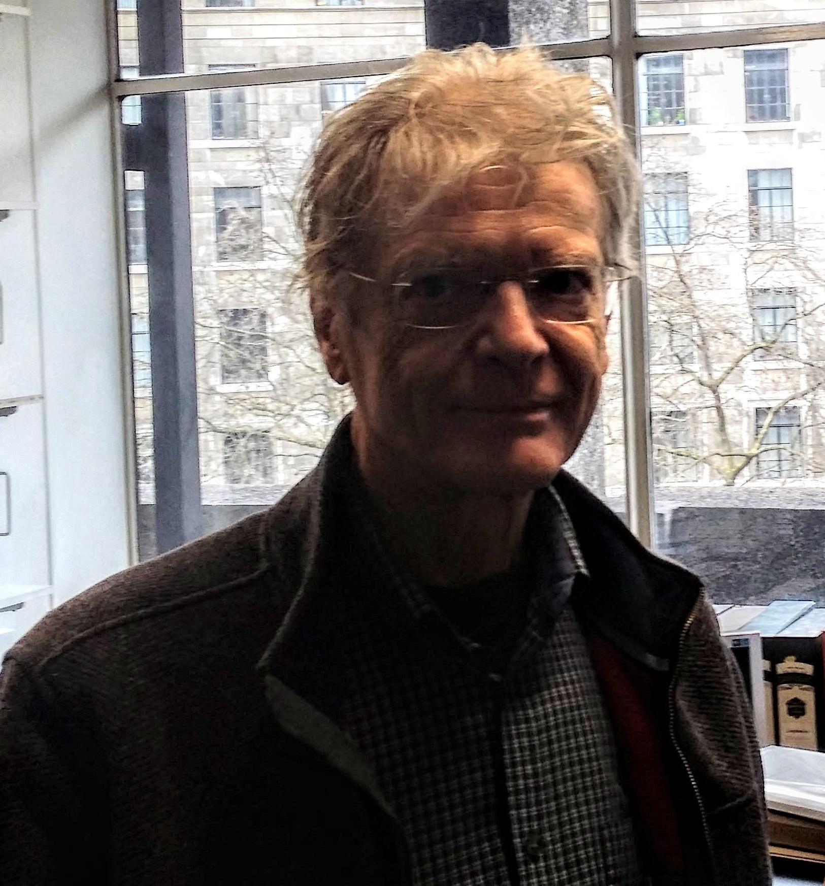 E. Brian Davies at the Strand building of King's College in his office